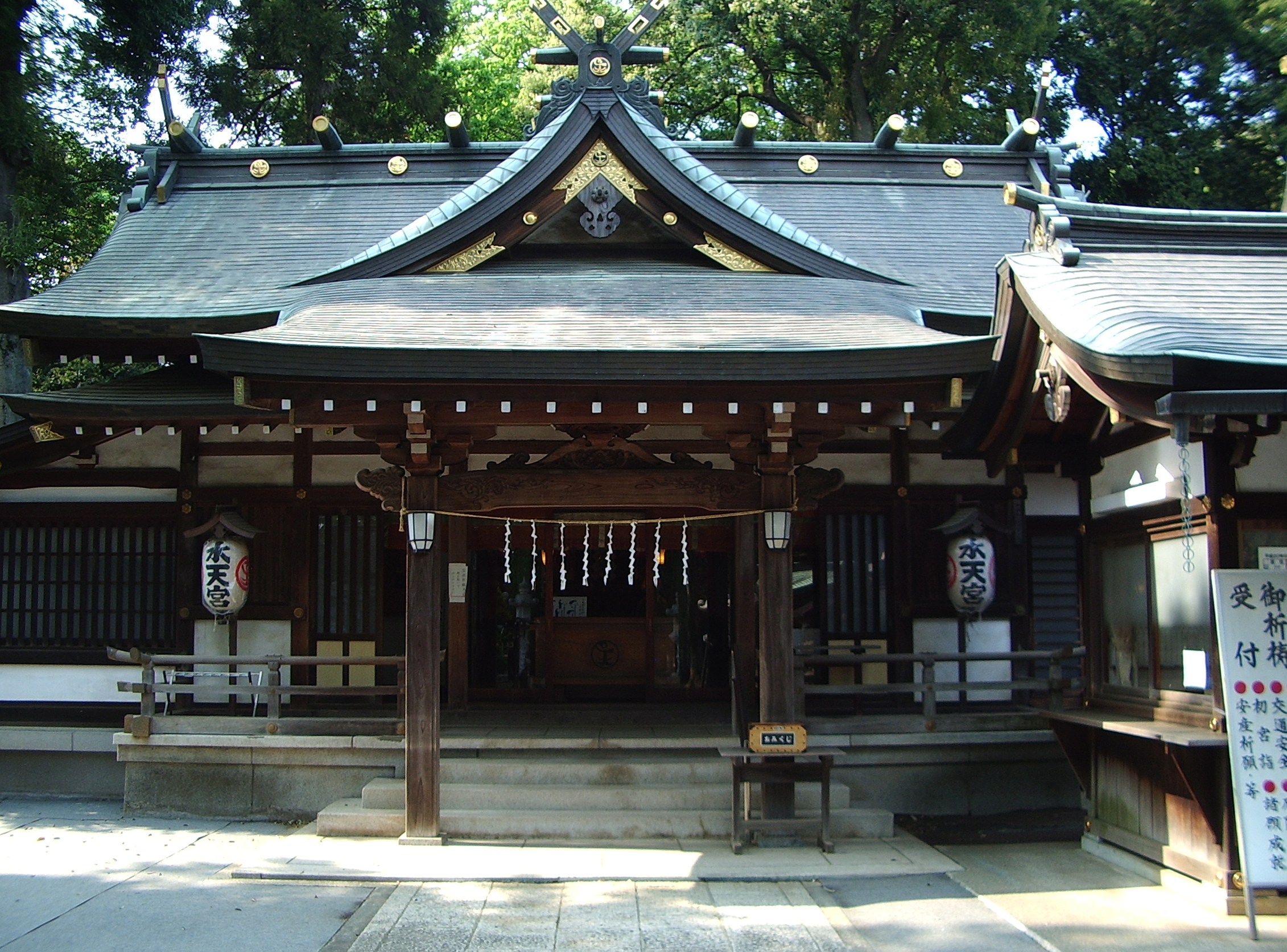 Suitengu, Kiyose, Tokyo